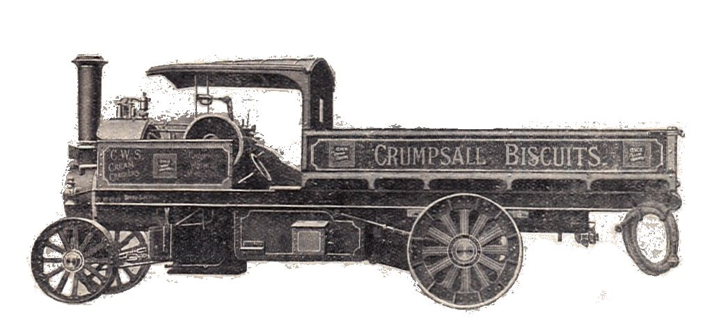 Foden steam lorry (Army Service Corps Training, Mechanical Transport, 1911).jpg